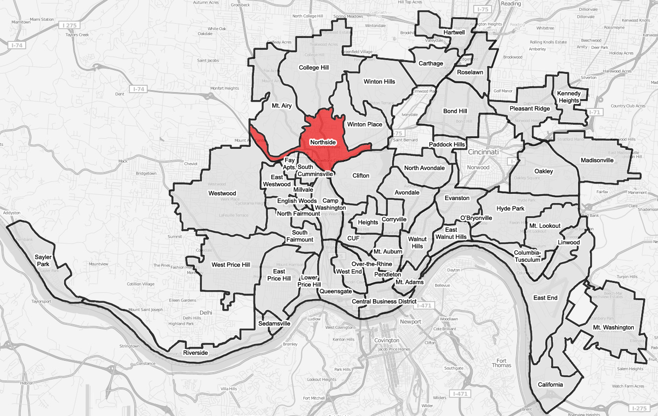 A map of the neighborhood of Northside within Cincinnati, Ohio. Neighborhood lines are based on information from This street map is derived from a free map.